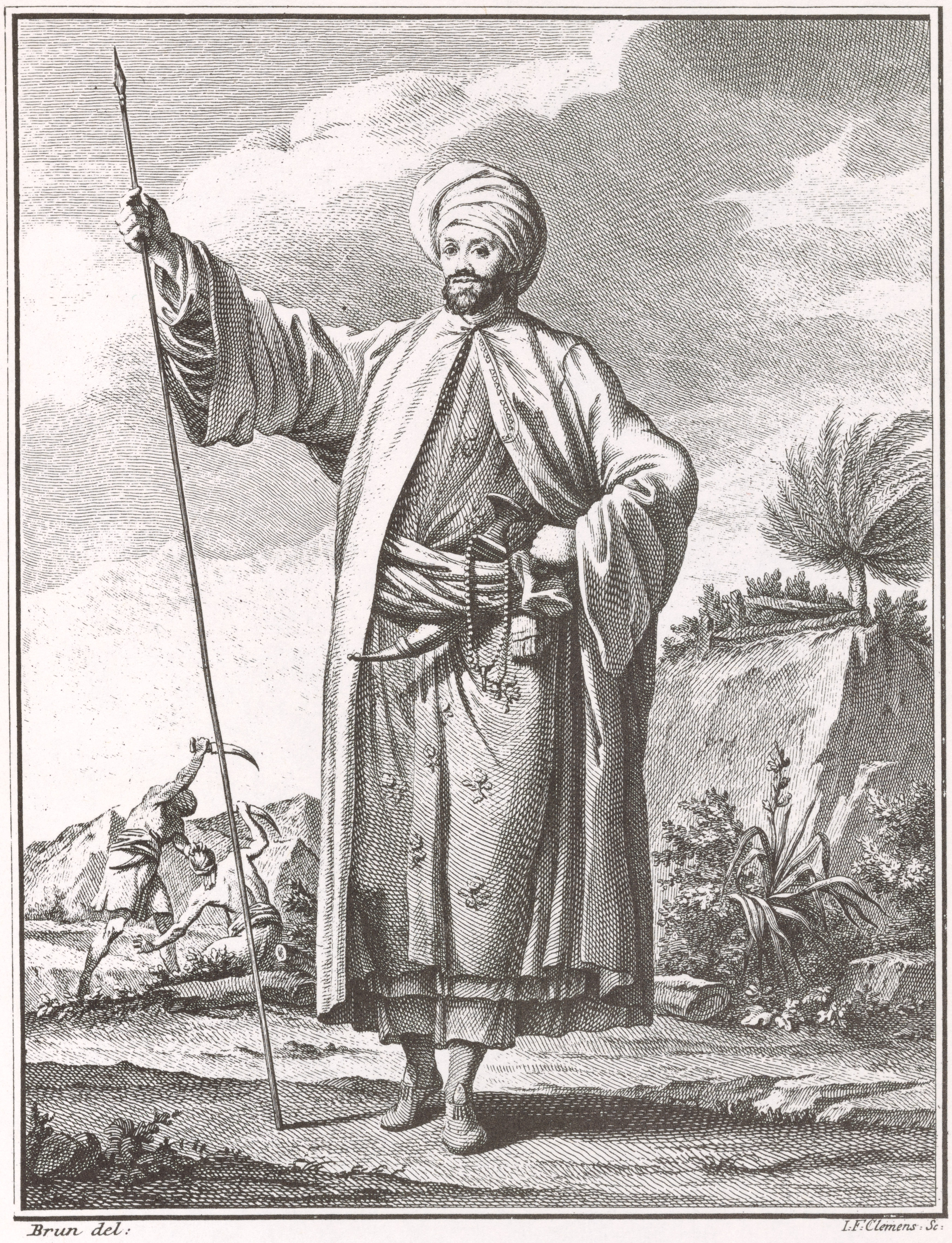 portrait of Carsten Niebuhr or Karsten Niebuhr (17 March 1733 – 26 April 1815 )